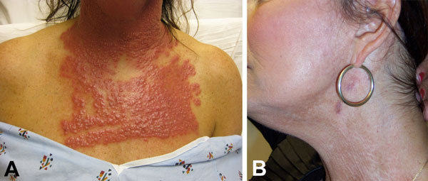 A) Neck and chest of a 53-year-old woman (case-patient 1) 14 days after fractionated CO2 laser resurfacing. B) Neck of the patient after 5 months of multidrug therapy and pulsed dye laser treatment.